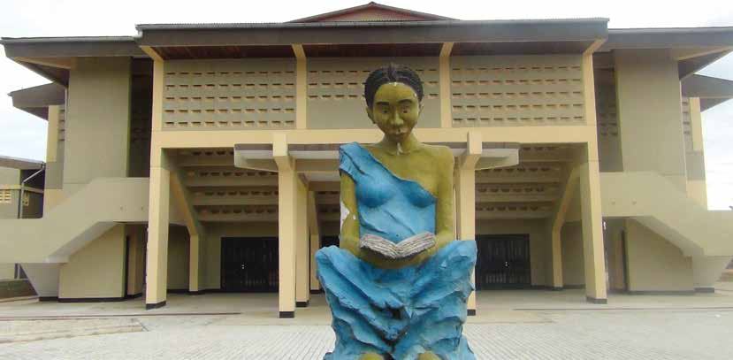 Amphithéâtre de l'Université de Kisangani réhabilité par le B.Ce.Co sur fonds PPTE (Pays Pauvres Très Endettés)